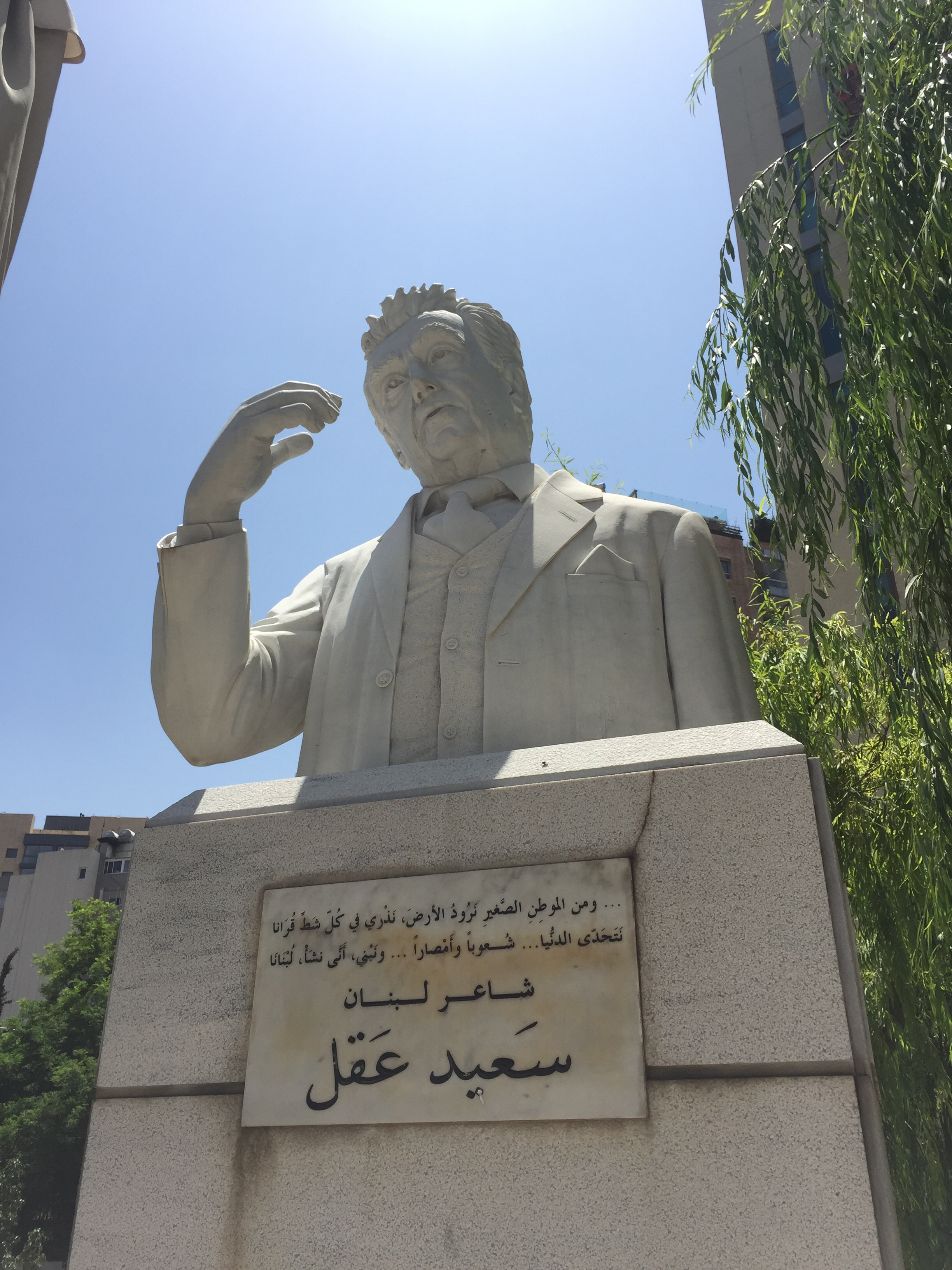 (4 July 1911 – 28 November 2014) was a Lebanese poet, philosopher, writer, playwright and language reformer. He was considered one of the most important modern Lebanese poets. He is most famous for his advocacy on behalf of codifying the spoken Lebanese language, as a competency distinct from Standard Arabic, to be written in a modern modified Roman script consisting of 36 symbols that he deemed an evolution of the Phoenician Alphabet. Although he was a gifted Arabist, producing some of the masterpieces of modern Arabic belle lettres in Standard Classical Arabic, his most exquisite works remained in his "native language," in what he referred to as the "Lebanese language."